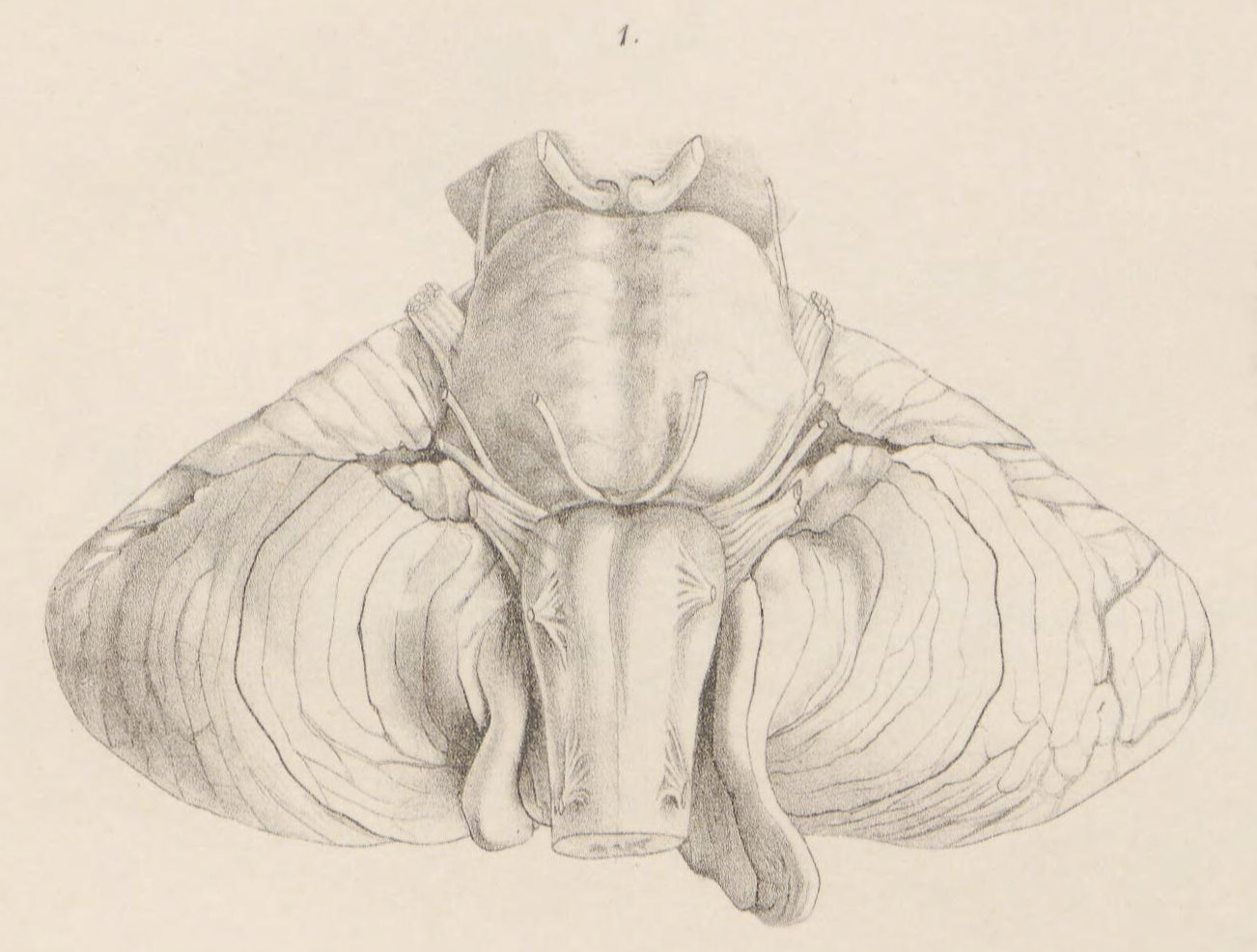 Illustration from Hans Chiari classic monograph about Arnold-Chiari malformation.